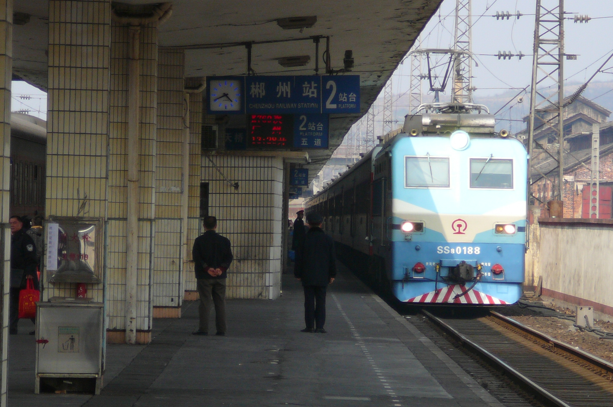 Chenzhou station